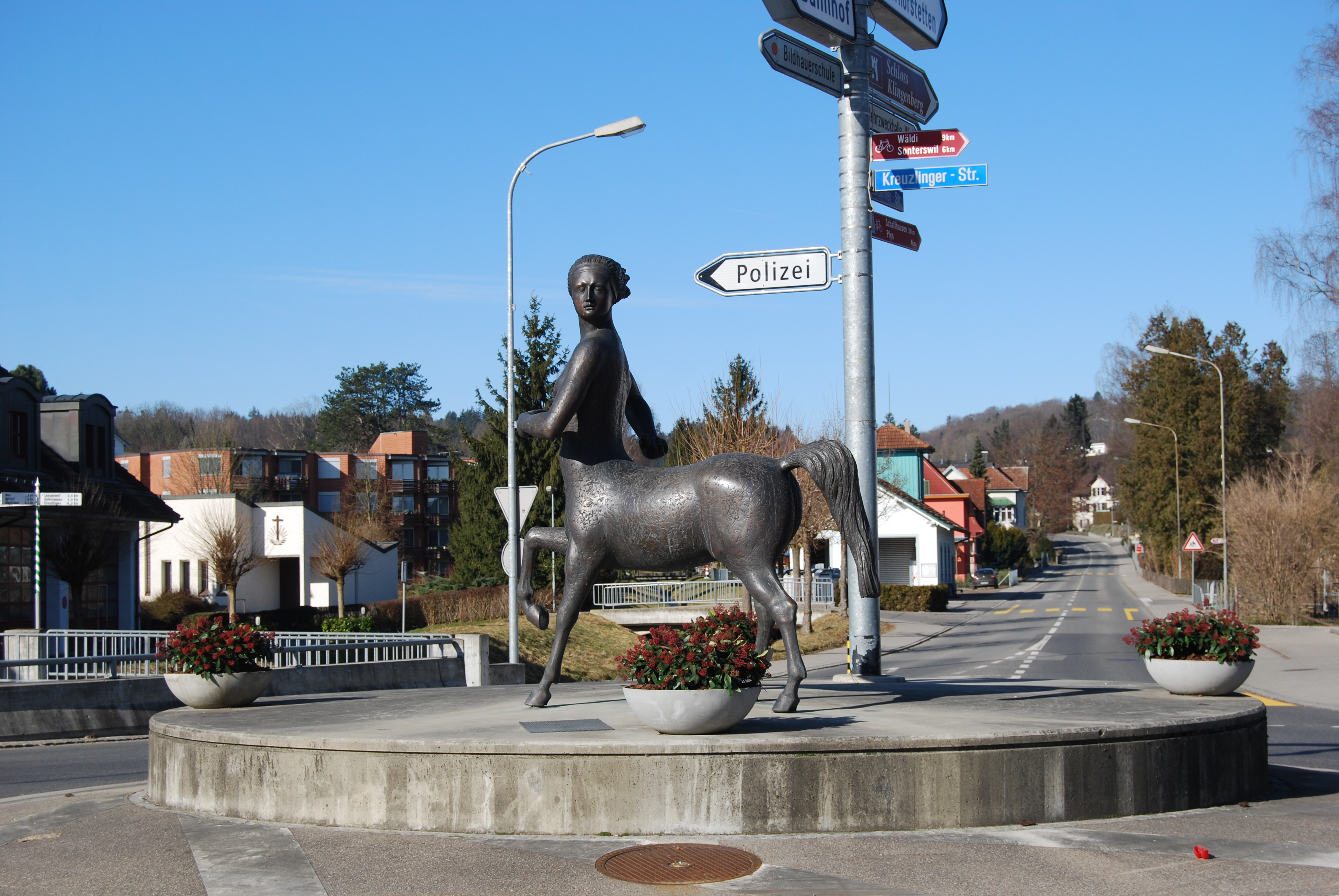 Centaur Roundabout at Müllheim, canton of Thurgovia, SwitzerlandEsperanto: Centauro-Trafikcirklo en Müllheim, Kantono Turgovio, Svislando